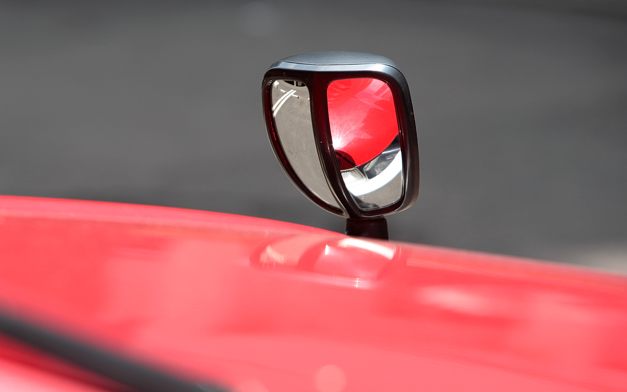 Supplemental mirror (Toyota Land Cruiser Prado 90)